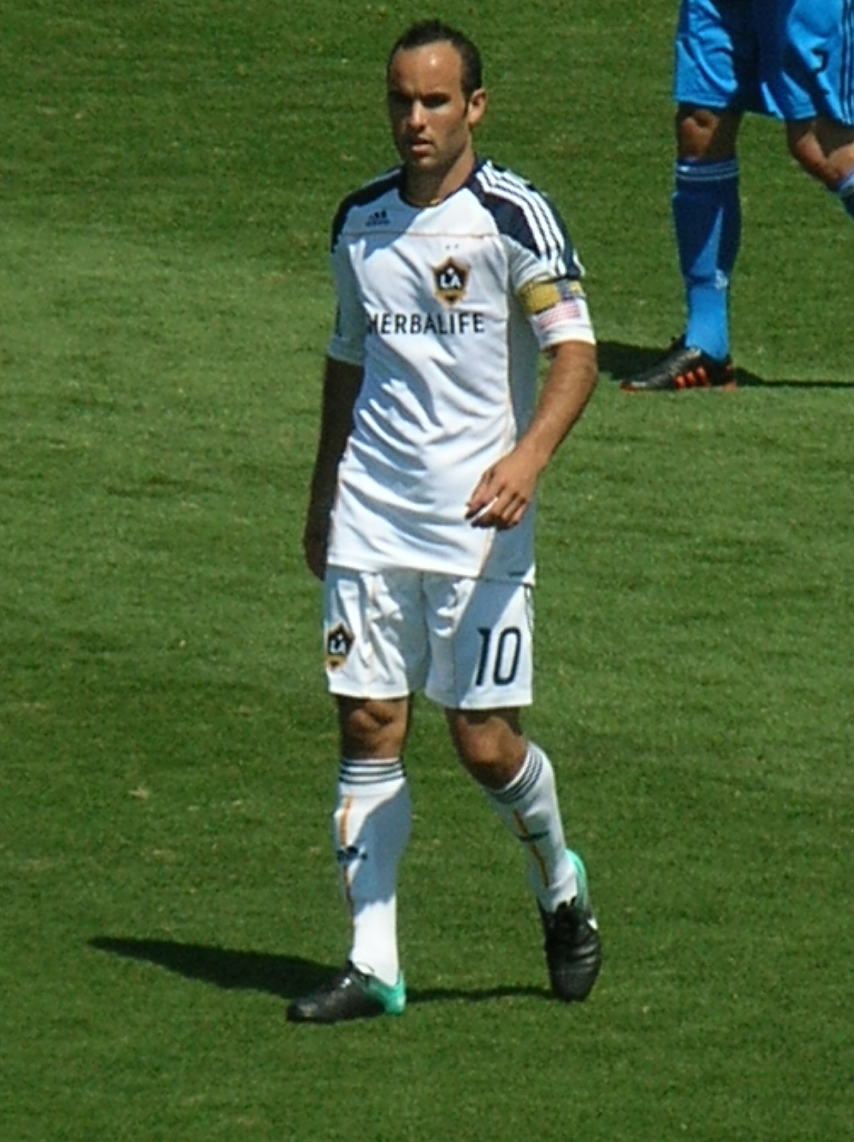 LA Galaxy player Landon Donovan at an away game against the San Jose Earthquakes. The Earthquakes won 1-0.